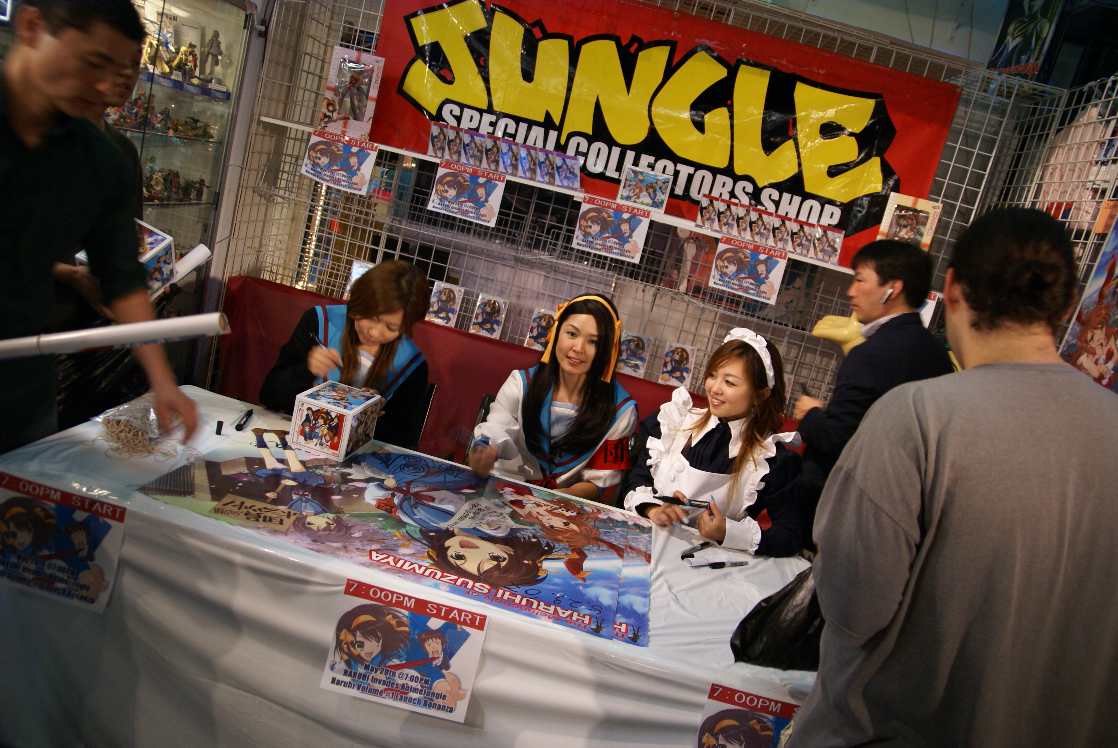 An event of The Melancholy of Haruhi Suzumiya in United States.